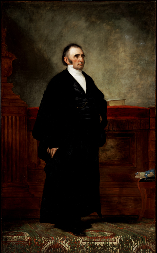 Portrait of Francis Wayland (1846) George Peter Alexander Healy (American, 1813-1894) Oil on canvas 57 1/2"w x 93"